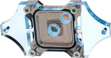 Watercooler for CPU with Jetstream Technology and Surface Picture: Robert Paprstein